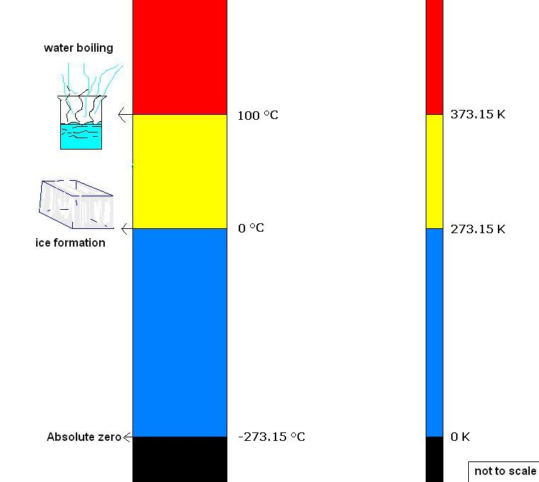 Kelvin and Celsius Scales - Comparison